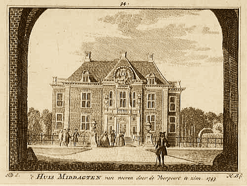 Castle Middagten, view from the frontside trought the gate, 1743